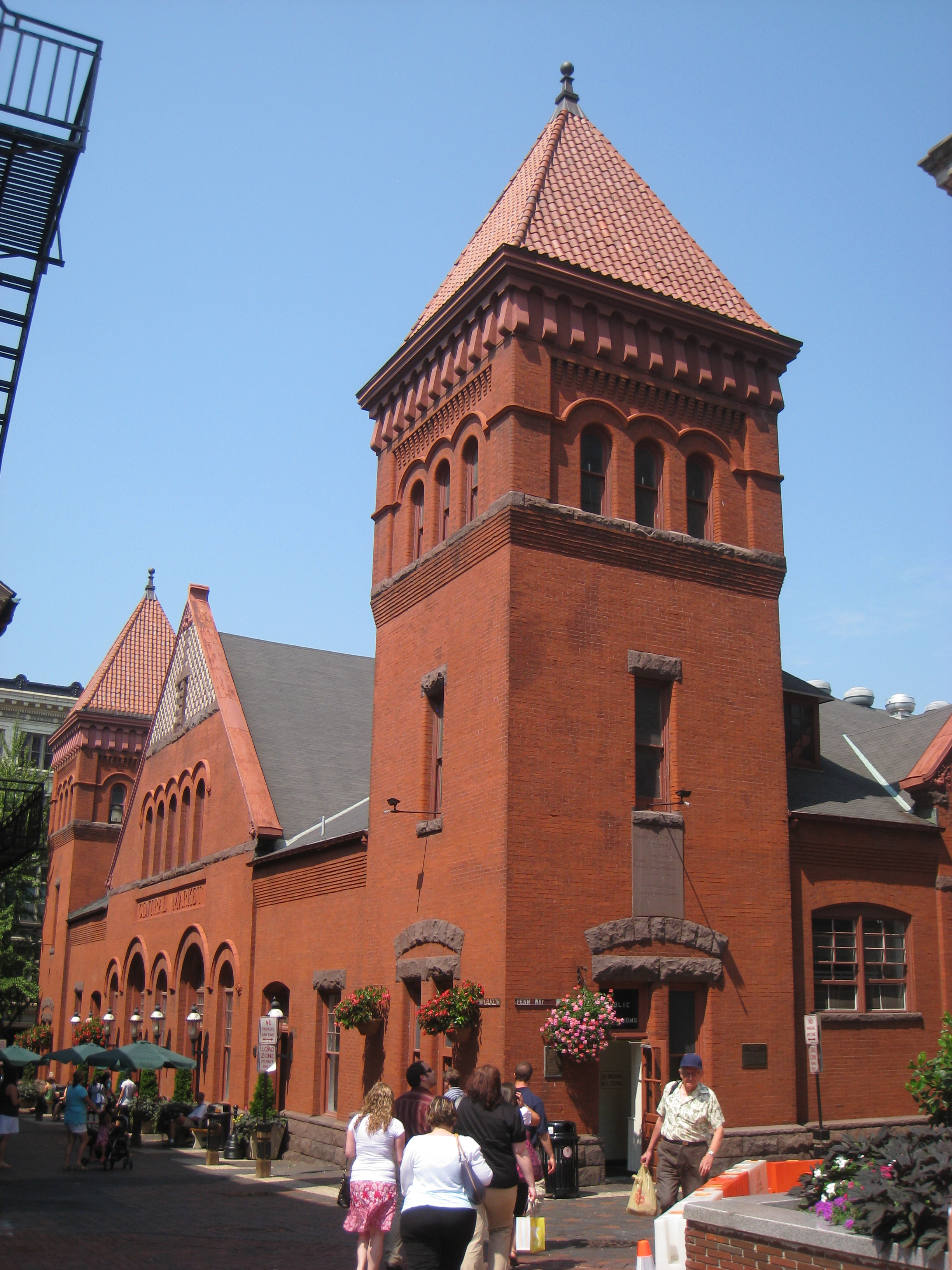 Central Market, Lancaster, Pennsylvania, USA. Exterior view.